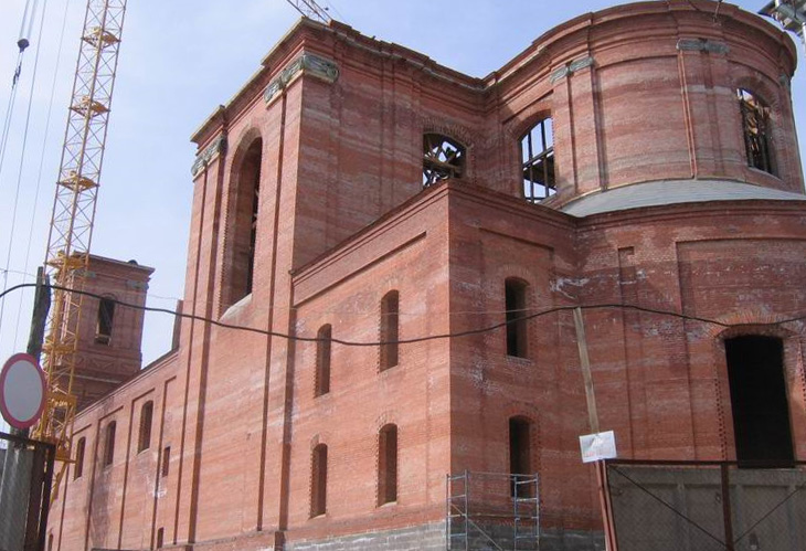 Church_of_the_Assumption_(Viciebsk,_Bielarus), Усьпенская царква ў Віцебску